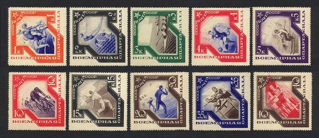 Stamp of USSR